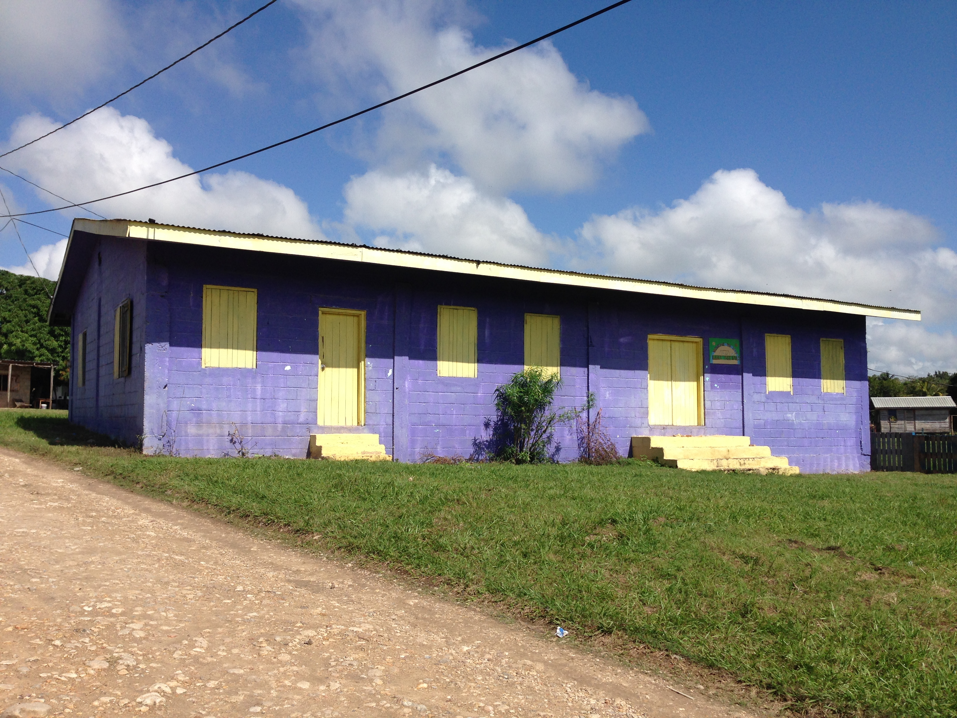 Bullet Tree Falls Community Center on Santa Familia Road